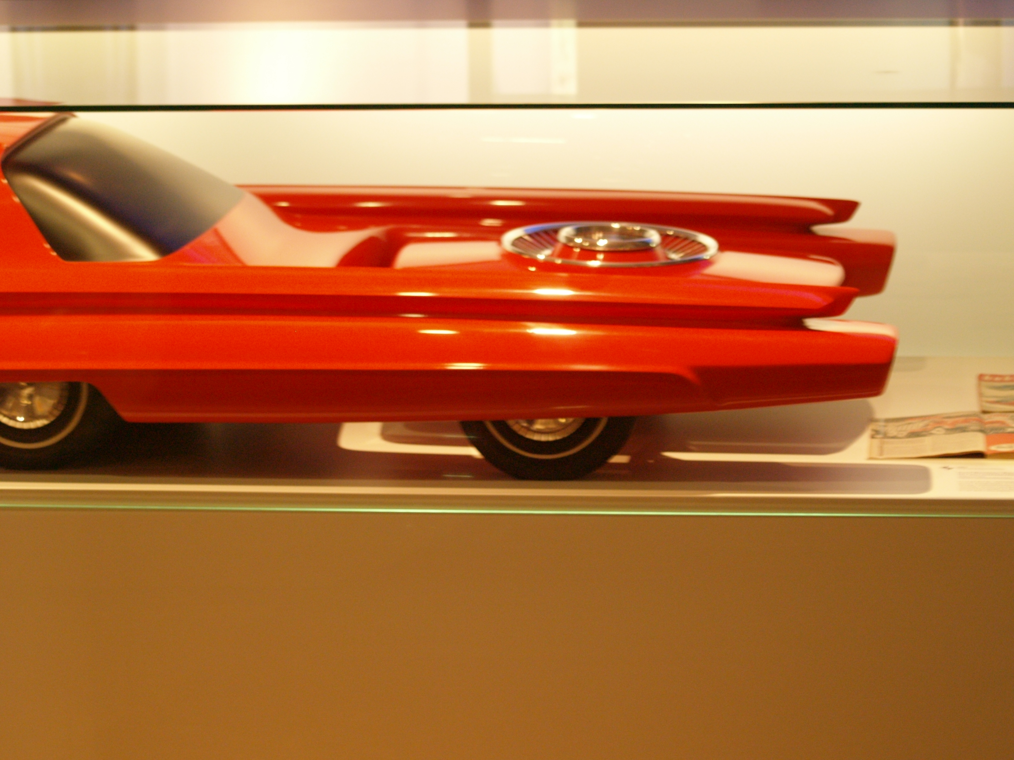 Ford Nucleon, a concept car (1958) in the German Museum of Technology in Berlin